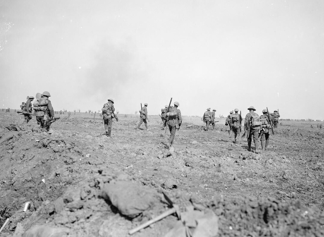 The Battle of the Somme, July-november 1916 Battle of Morval. Supporting troops moving up to the attack, 25th September 1916.